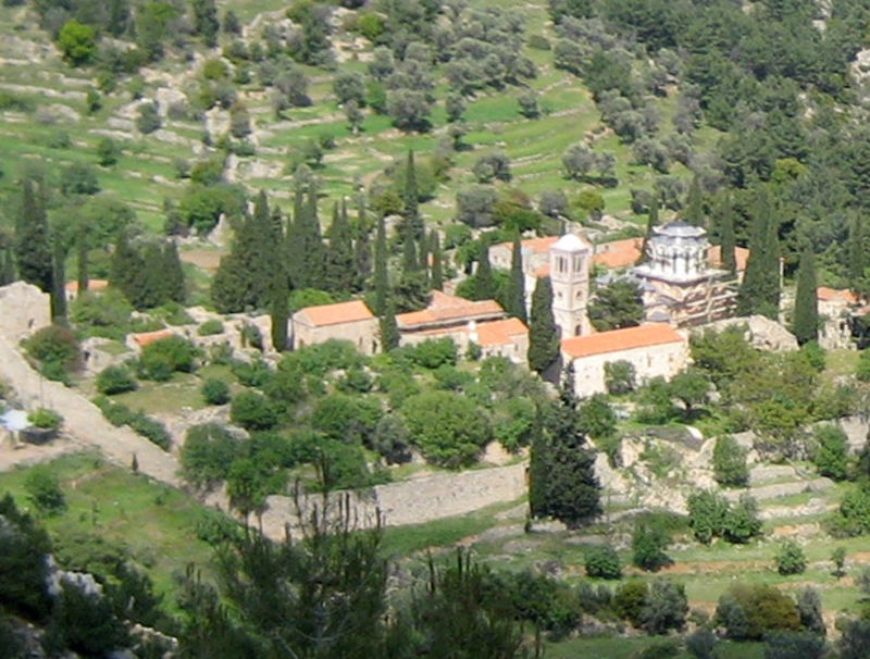 Monastery of Nea Moni of Chios